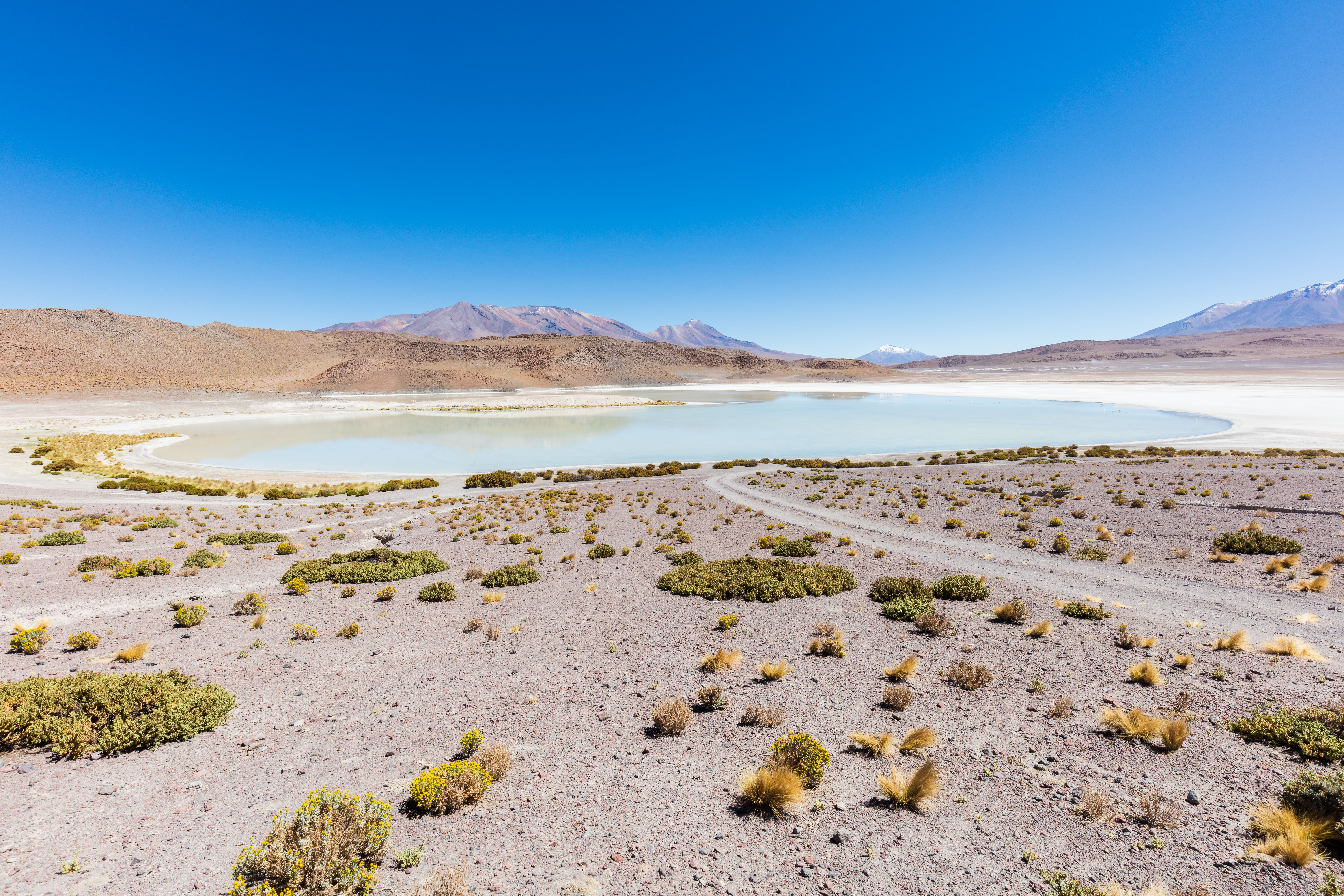 Laguna Honda (in English "Deep Lagoon") is a salt lake located at 4,114 metres (13,497 ft) over the sea level in the bolivian Potosí Department, close to the border with Chile.